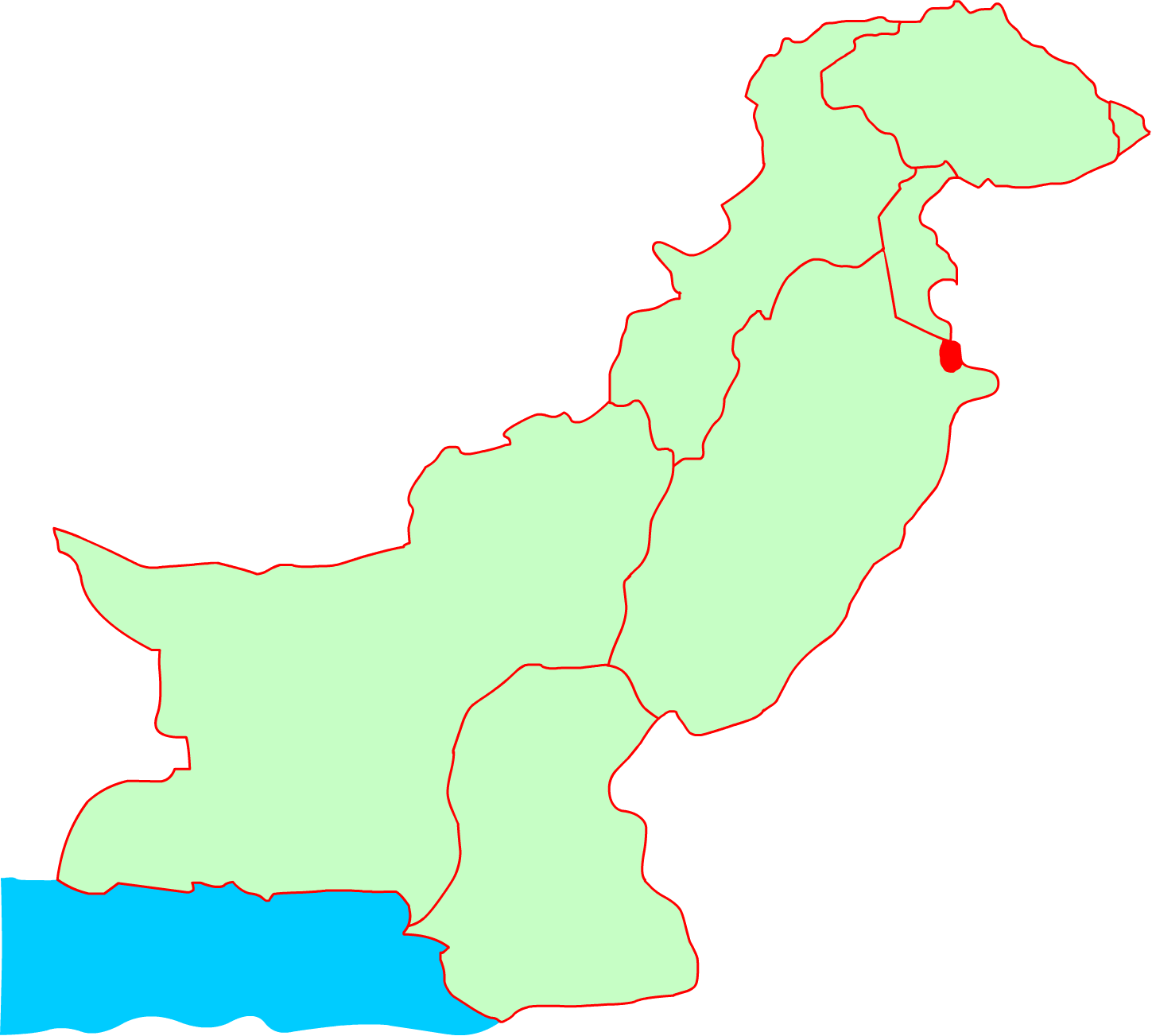 Location of Sialkot